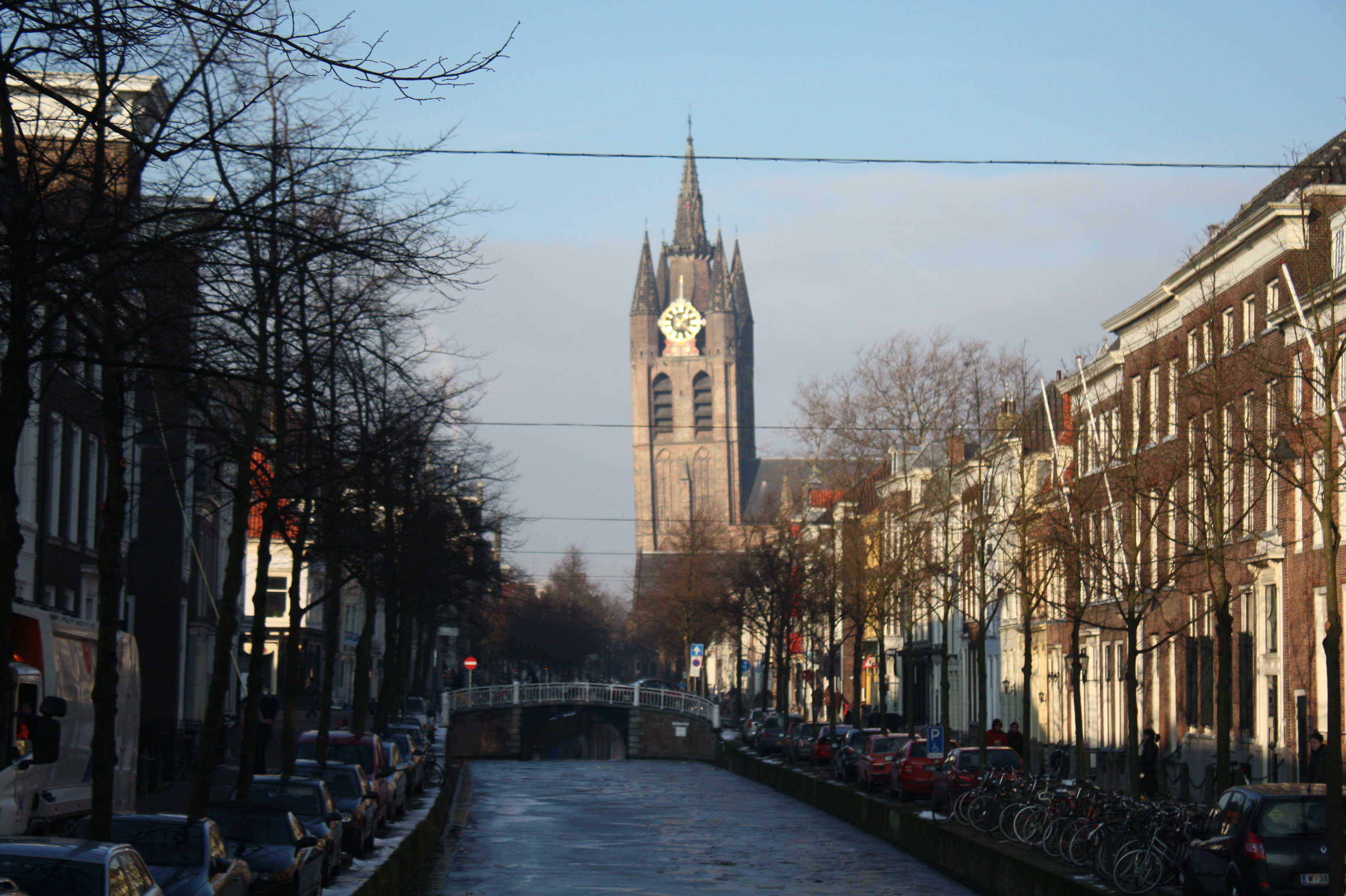 Delft, Oude Kerk (The Old Church)